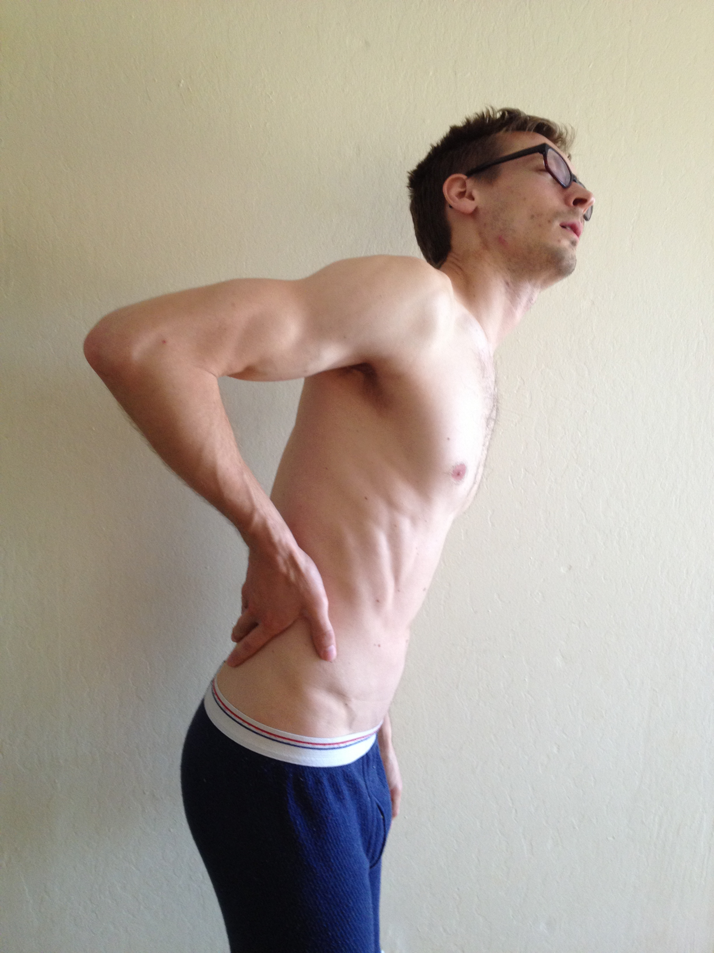 Flank pain is a common presentation in renal colic.